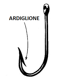 Line art drawing of a fish hook and its barb.